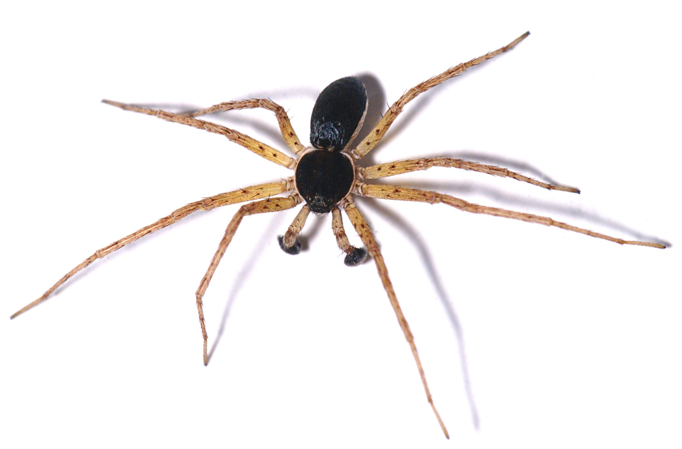 male adult Philodromus aureolus (or Philodromus dispar?) from Cologne, Germany.